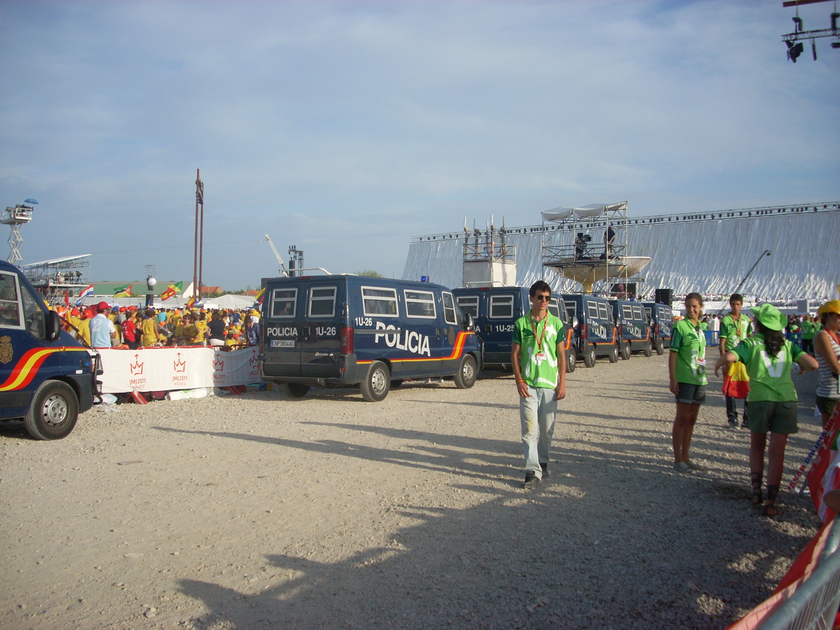 World Youth Day 2011 - Police at the Airport of Cuatro Vientos, during the mass of 21 August